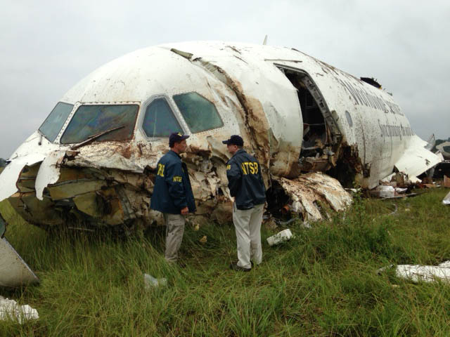 NTSB investigators examining the scene of the UPS Flight 1354 crash